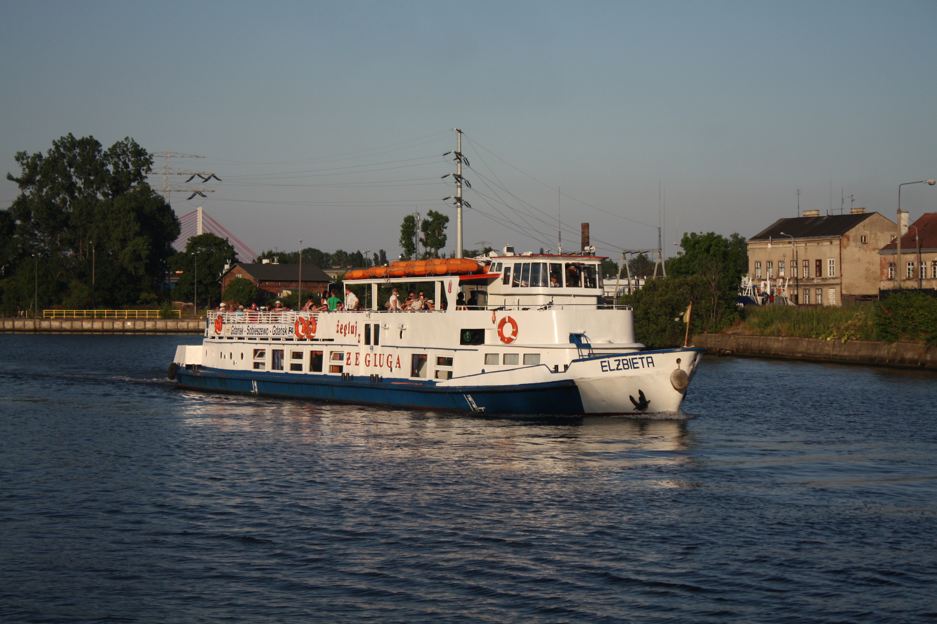 The Motława in Gdańsk.